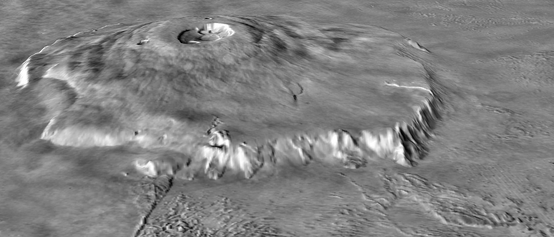 Two views of Olympus Mons, shown as topography draped over a Viking image mosaic. MOLA's regional topography has shown that this volcano sits off to the west of the main Tharsis rise rather than on its western flank. The topography also clearly shows the relationship between the volcano's scarp and massive aureole deposit that was produced by flank collapse. The vertical exaggeration is 10:1.